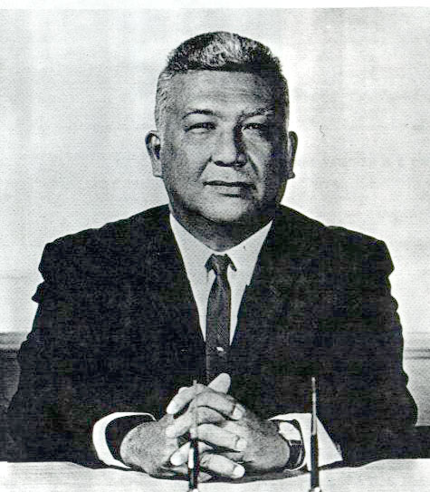 Picture of Governor Guerrero while in office.